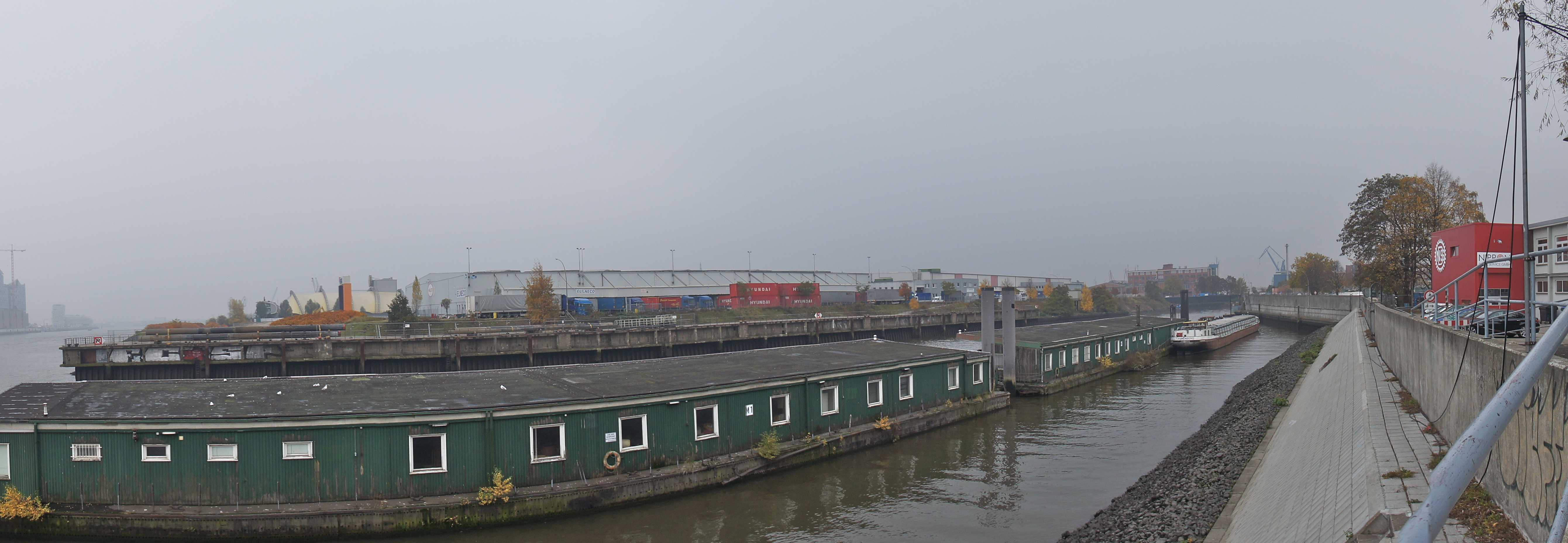 Hamburg (Steinwerder), Germany: Former customs offices at the Fährkanal